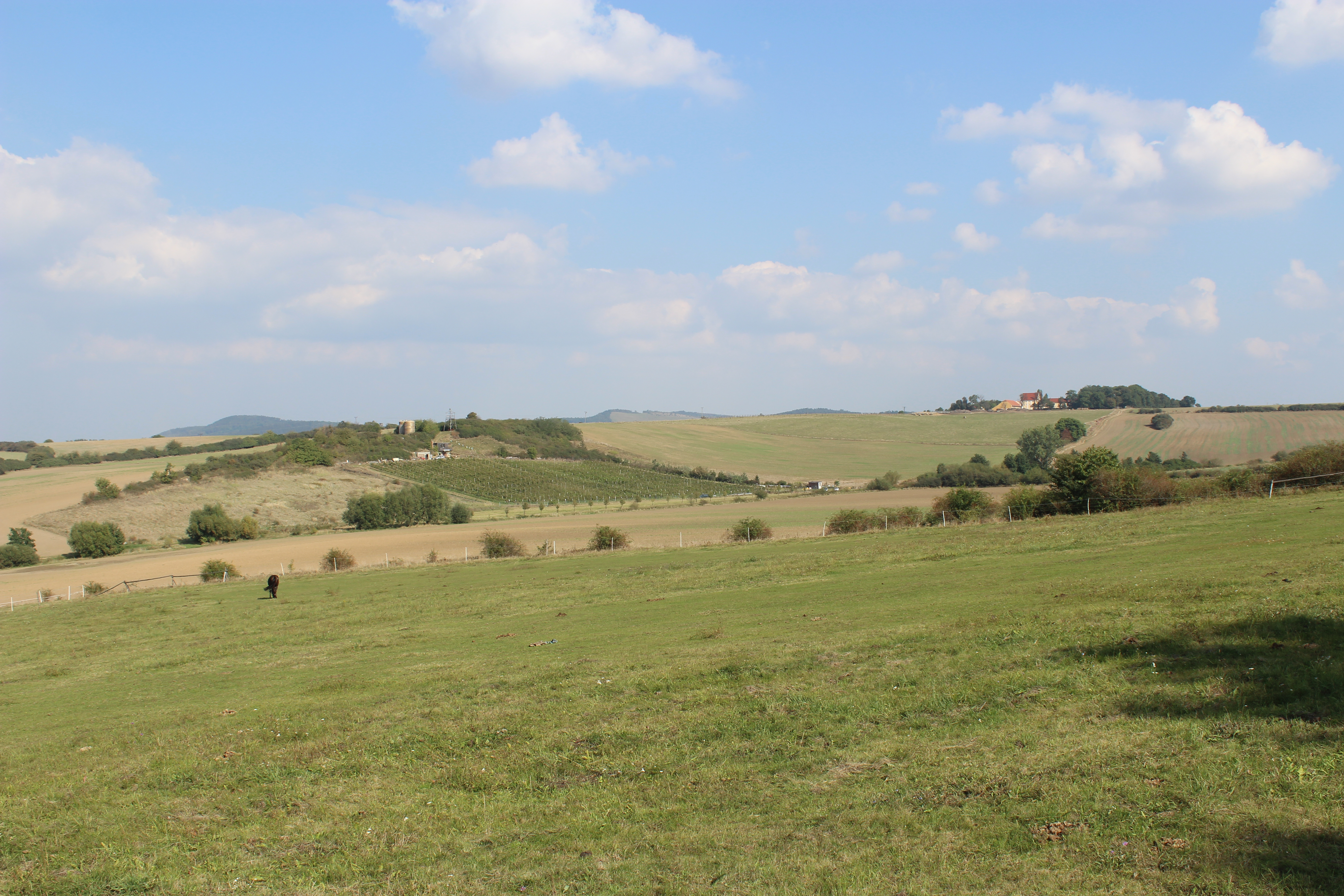 Otmíče